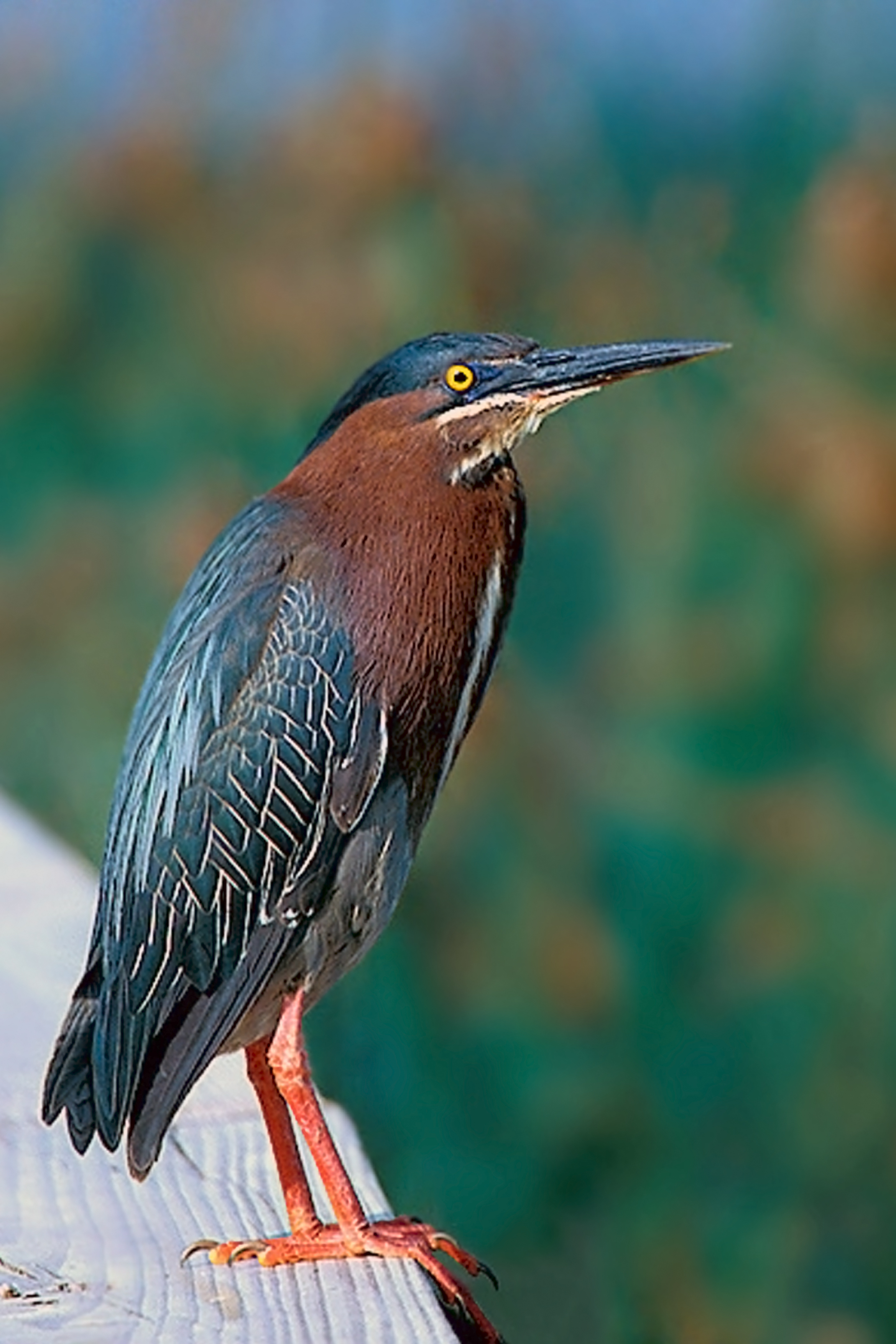 Golf Courses seem to have plenty of birds; the golfers ignore the birds which just might make them fell the safety they need. Sanibel Island, Florida.